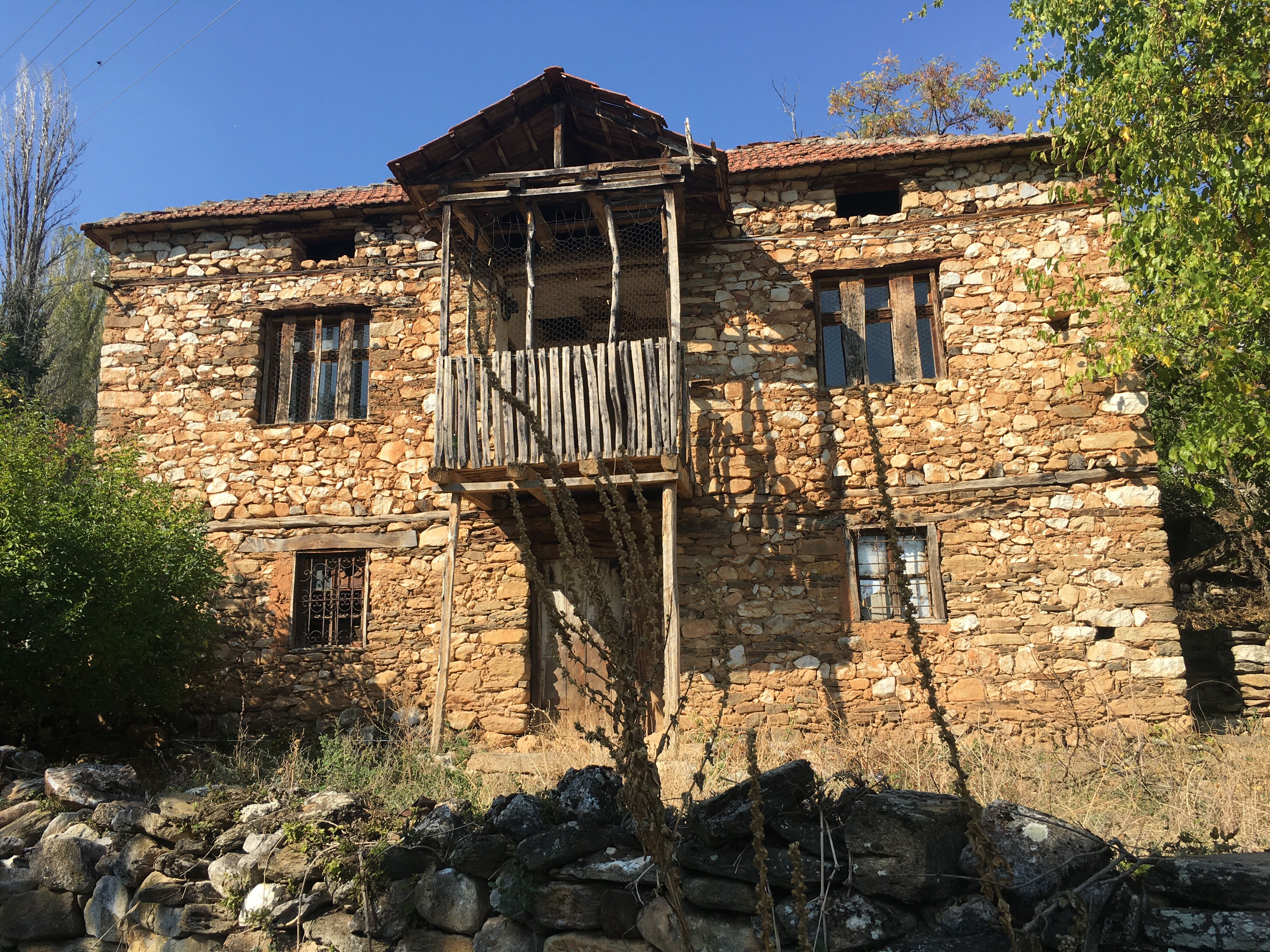 A traditional house in the village of Zrze